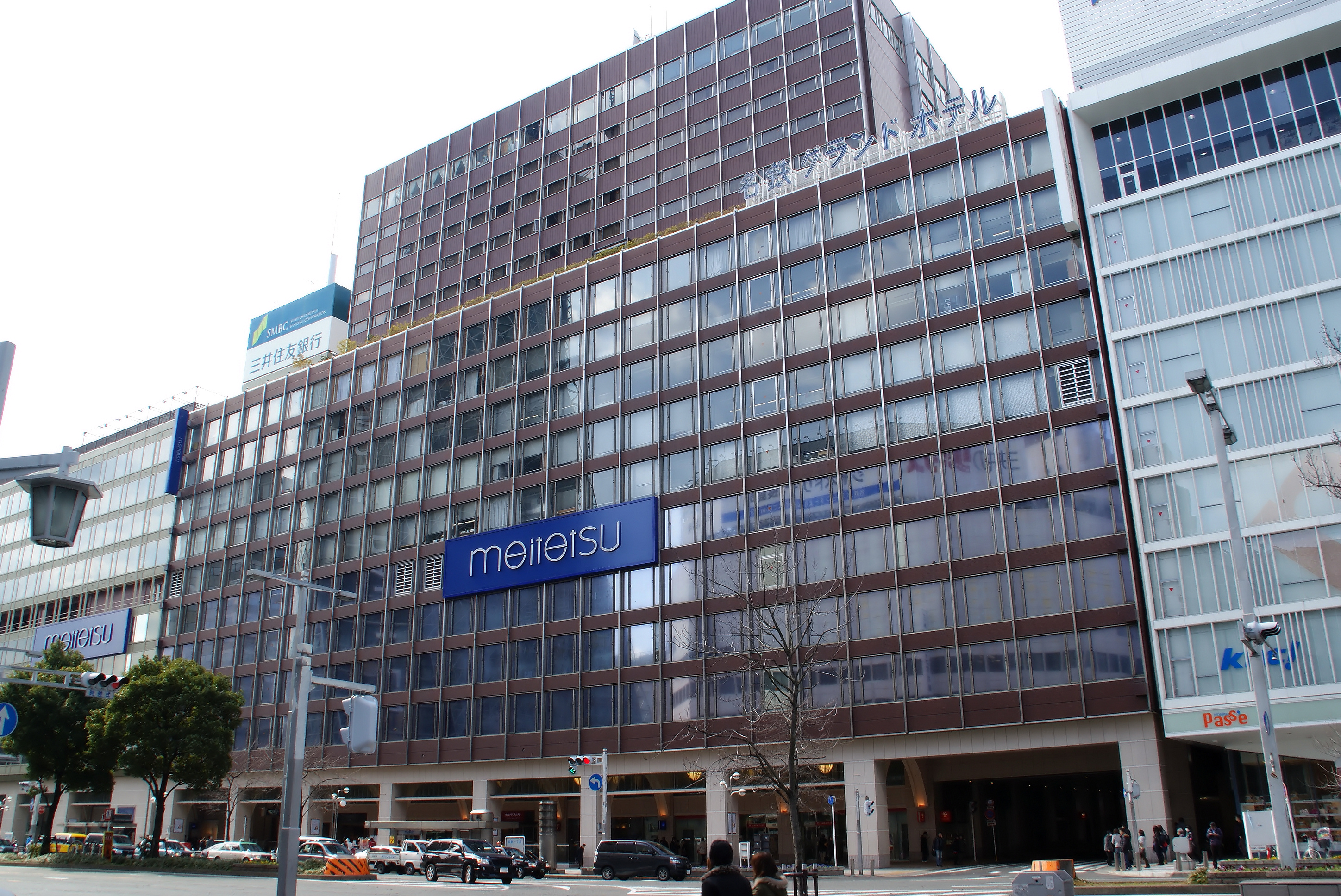 Meitetsu Bus Terminal Building. (Nakamura Ward, Nagoya City, Aichi Prefecture, Japan)